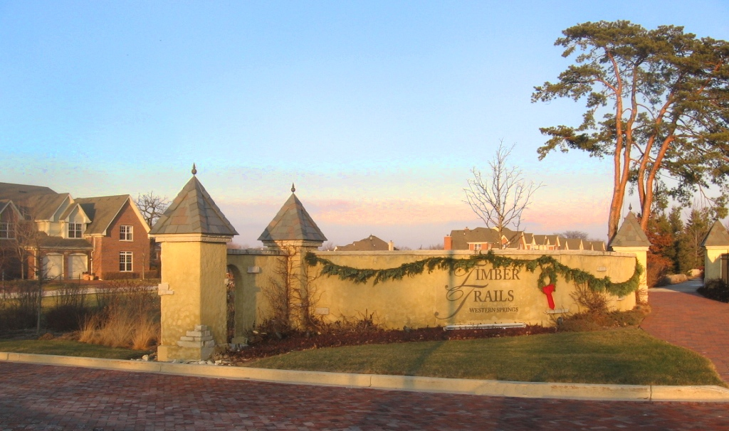 The west entrance to the Timber Trails subdivision, Western Springs, Illinois